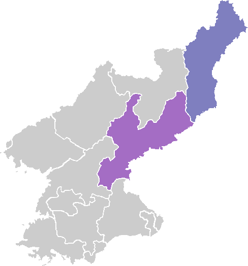 Area map of North Hamgyong province and South Hamgyong province of North Korea.